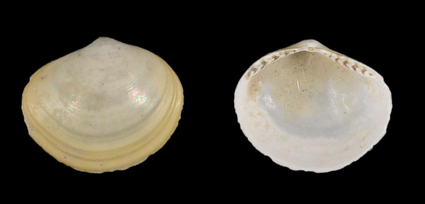 Yoldiella pachia Verrill & Bush, 1898; family Yoldiidae; Mississippi Delta